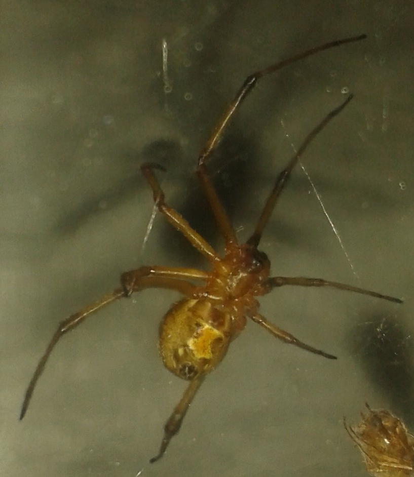 Brown widow spider found in Cairo, Egypt